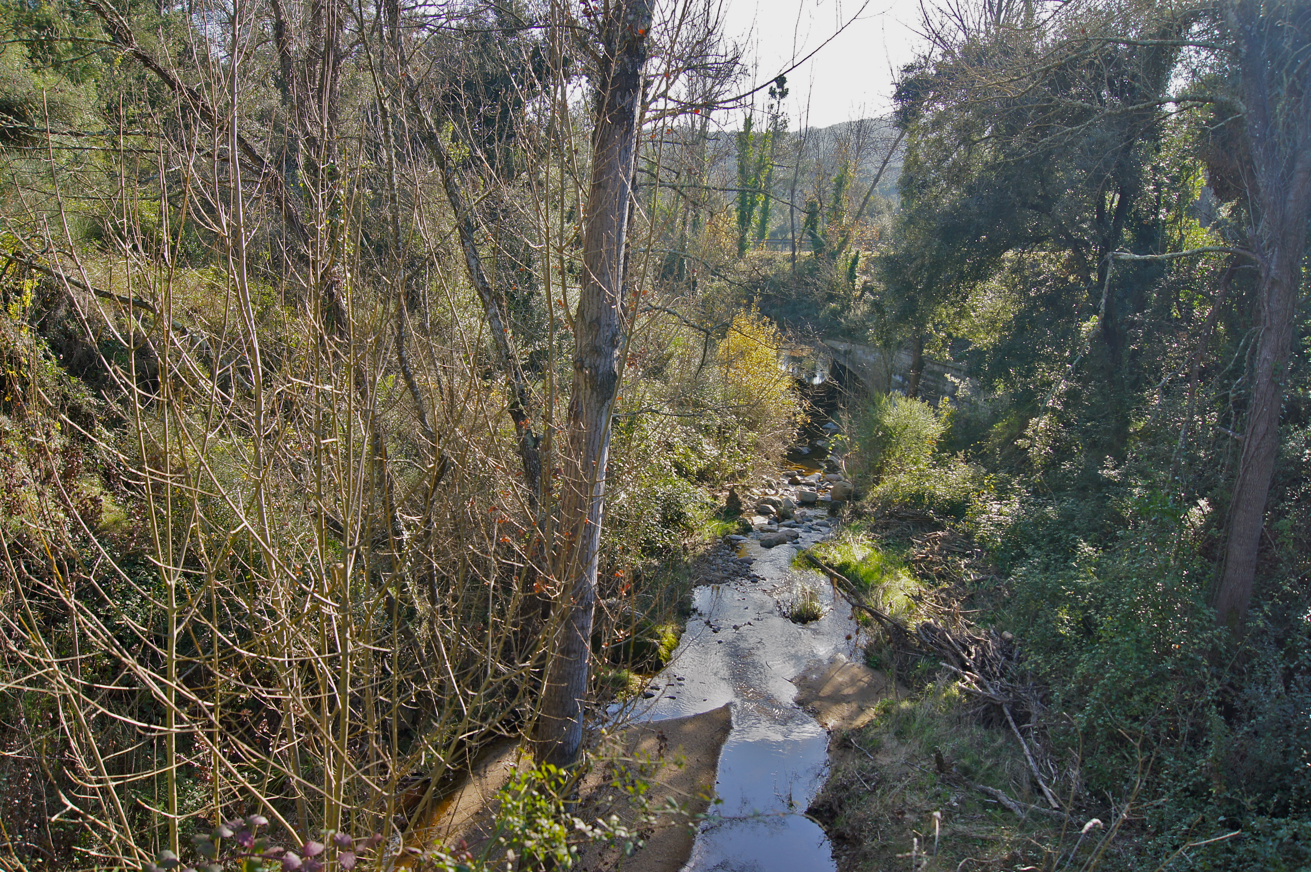 en:, Catalonia: The bridge over the GIV-6612 seen from the Pont rodó bridge